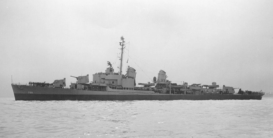 The U.S. Navy destroyer USS Lofberg (DD-759) off San Francisco, California (USA), on 3 May 1945.